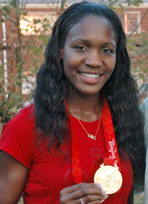 Olympic Medalist Mary Wineberg. (original text)